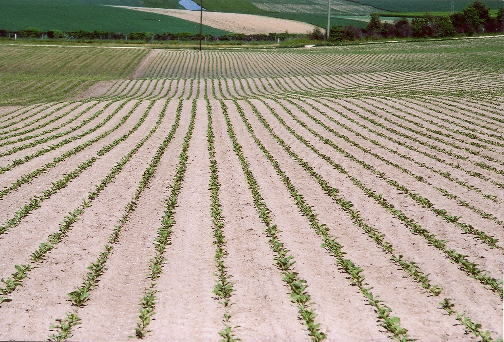 Sugar beet field, canton of Bern, Switzerland